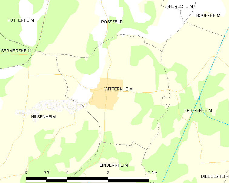 Map of French municipality